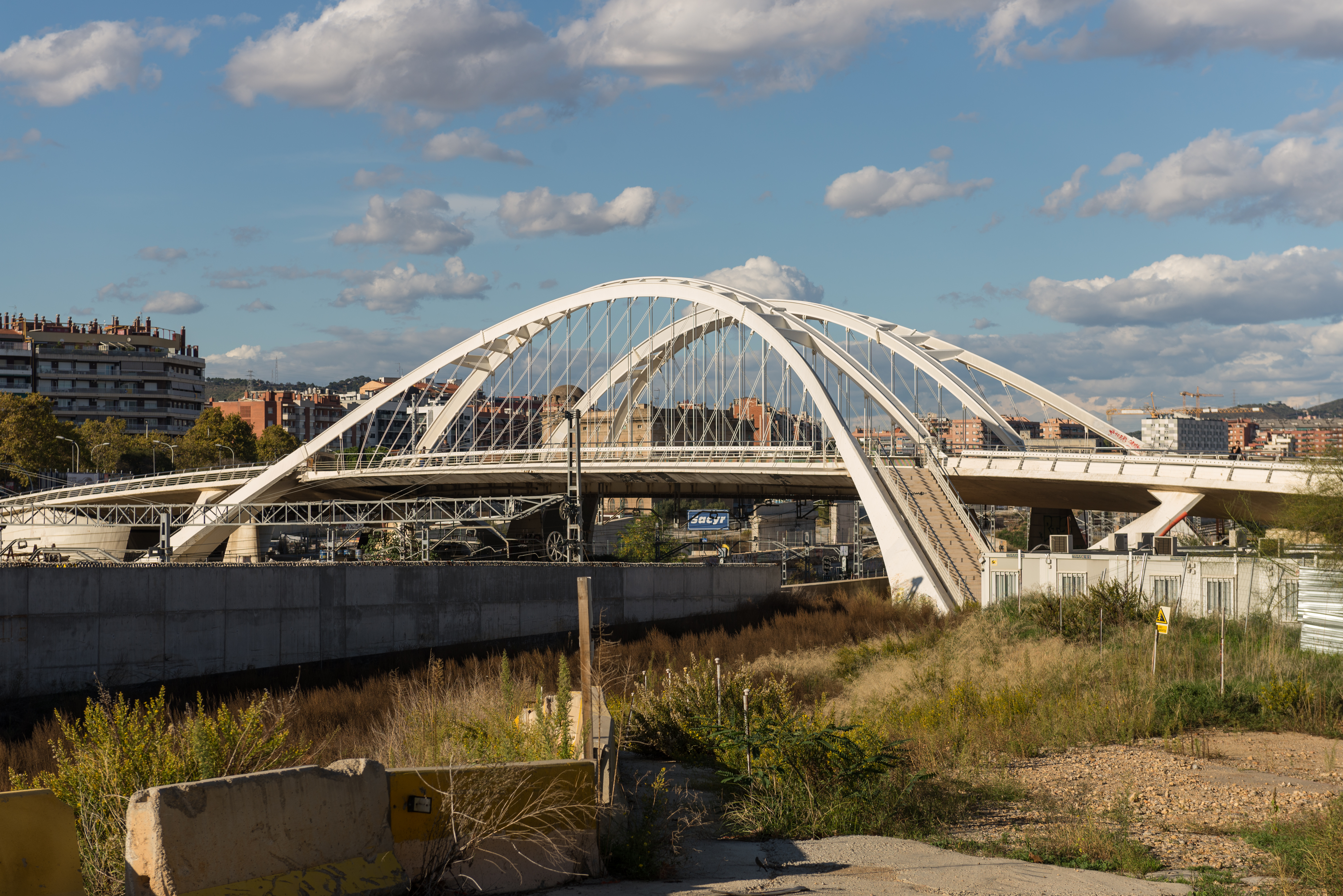 Bac de Roda Bridge of architect Santiago Calatrava in Barcelona